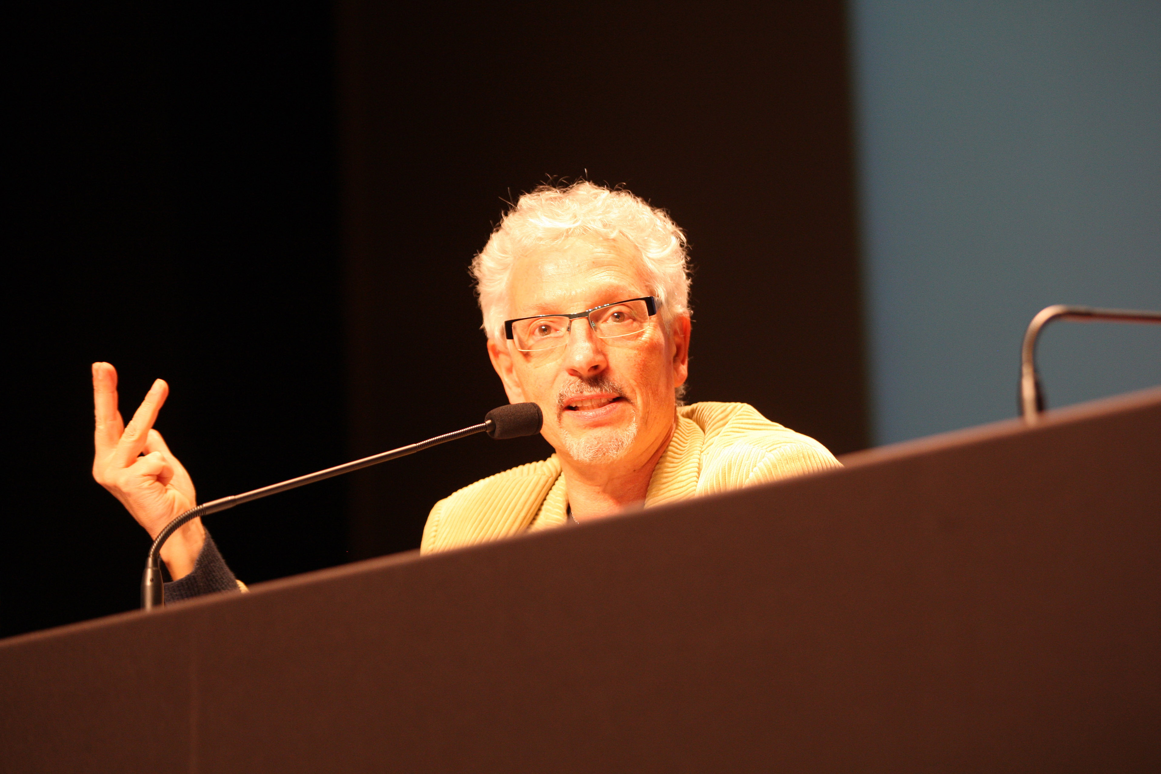 Judge Santiago Vidal conference in Sant Joan Despí (Catalonia).